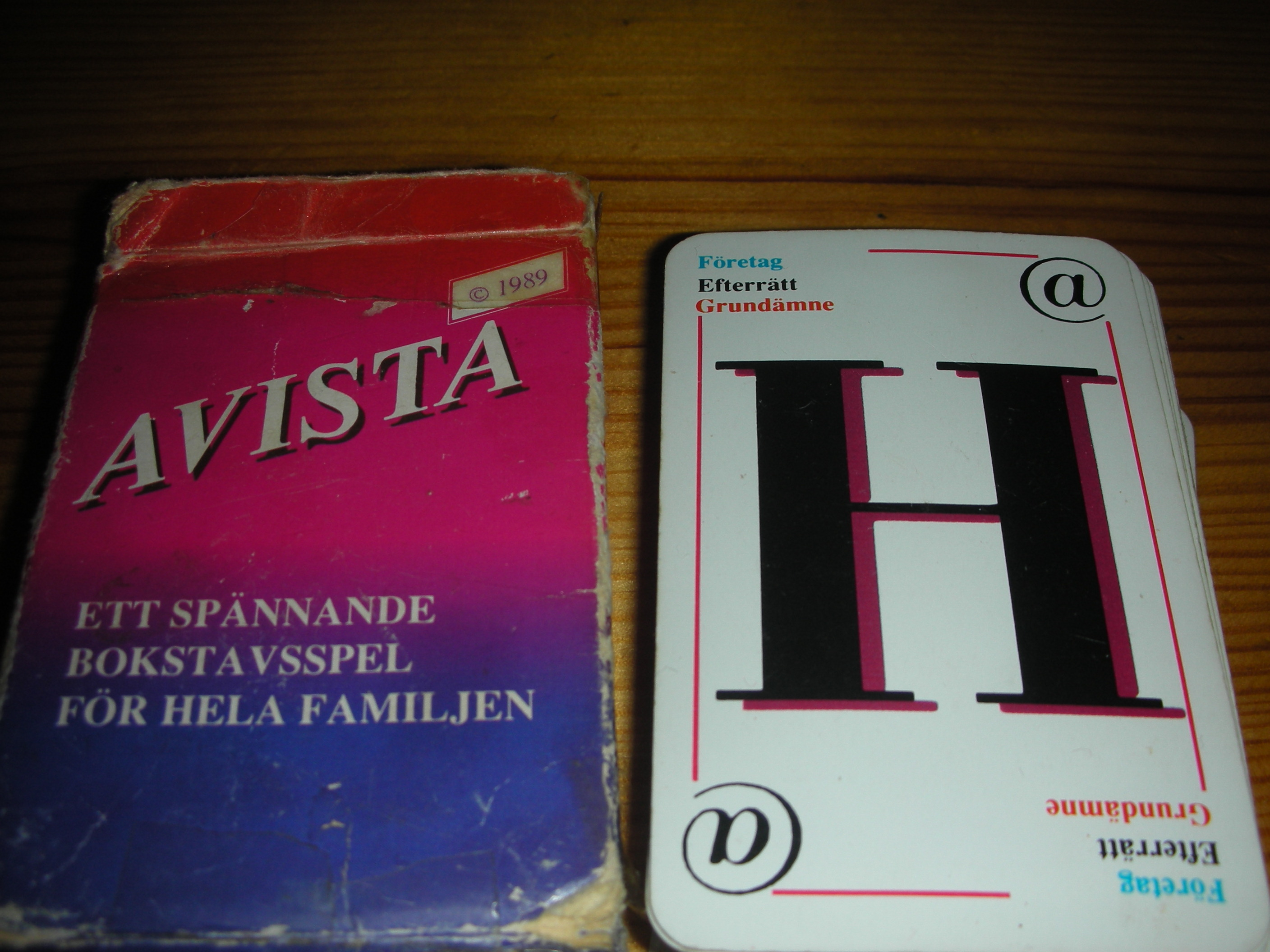 The cardgame Avista